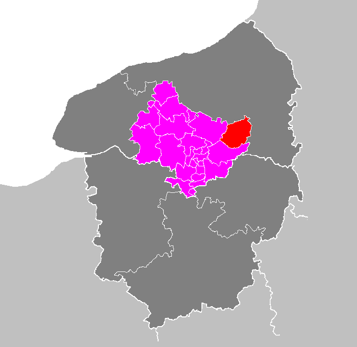 Maps of arrondissements and cantons of France: Arrondissement de Rouen - Canton de Buchy.PNG